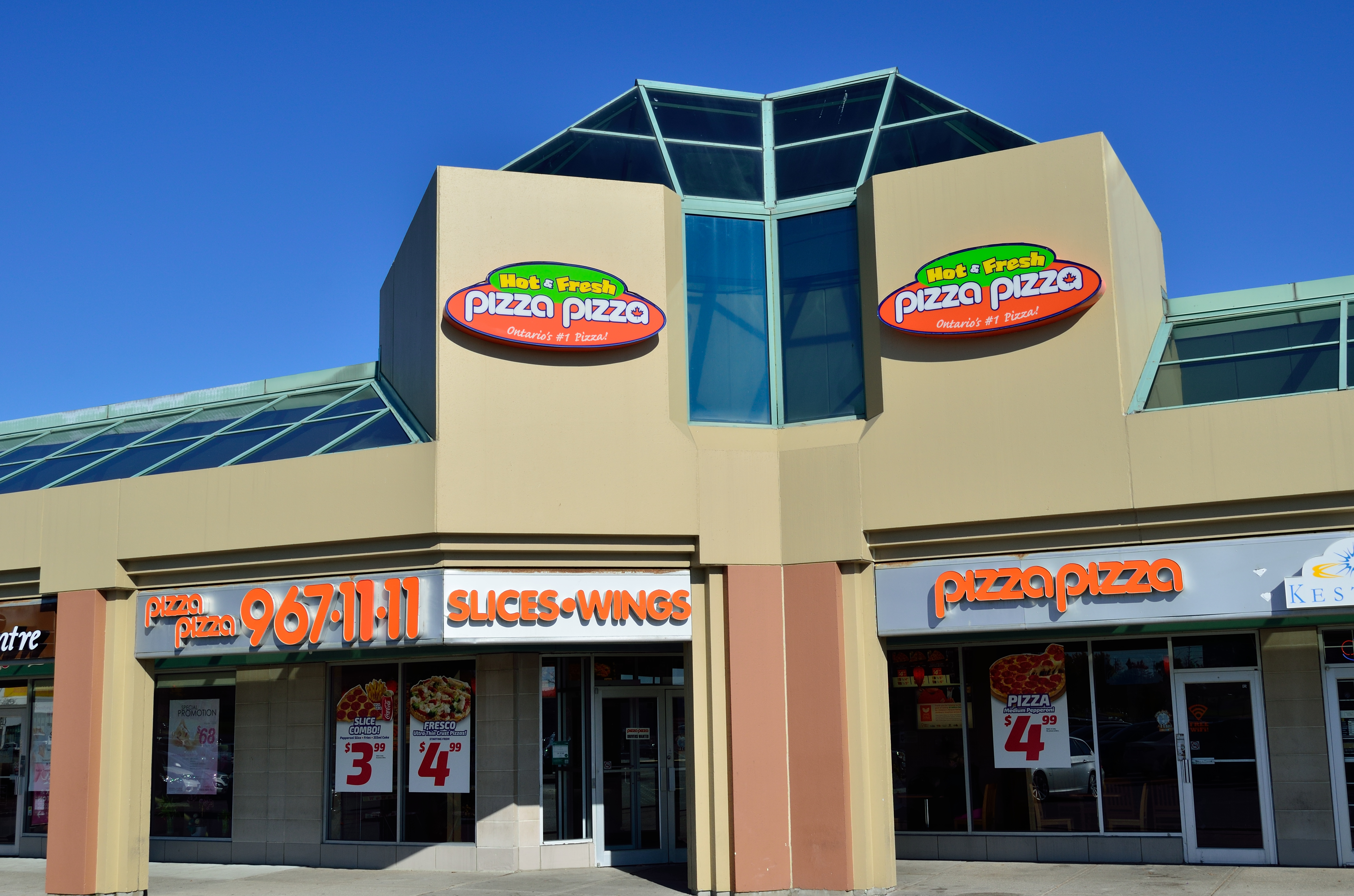 Pizza Pizza at Markham Town Square